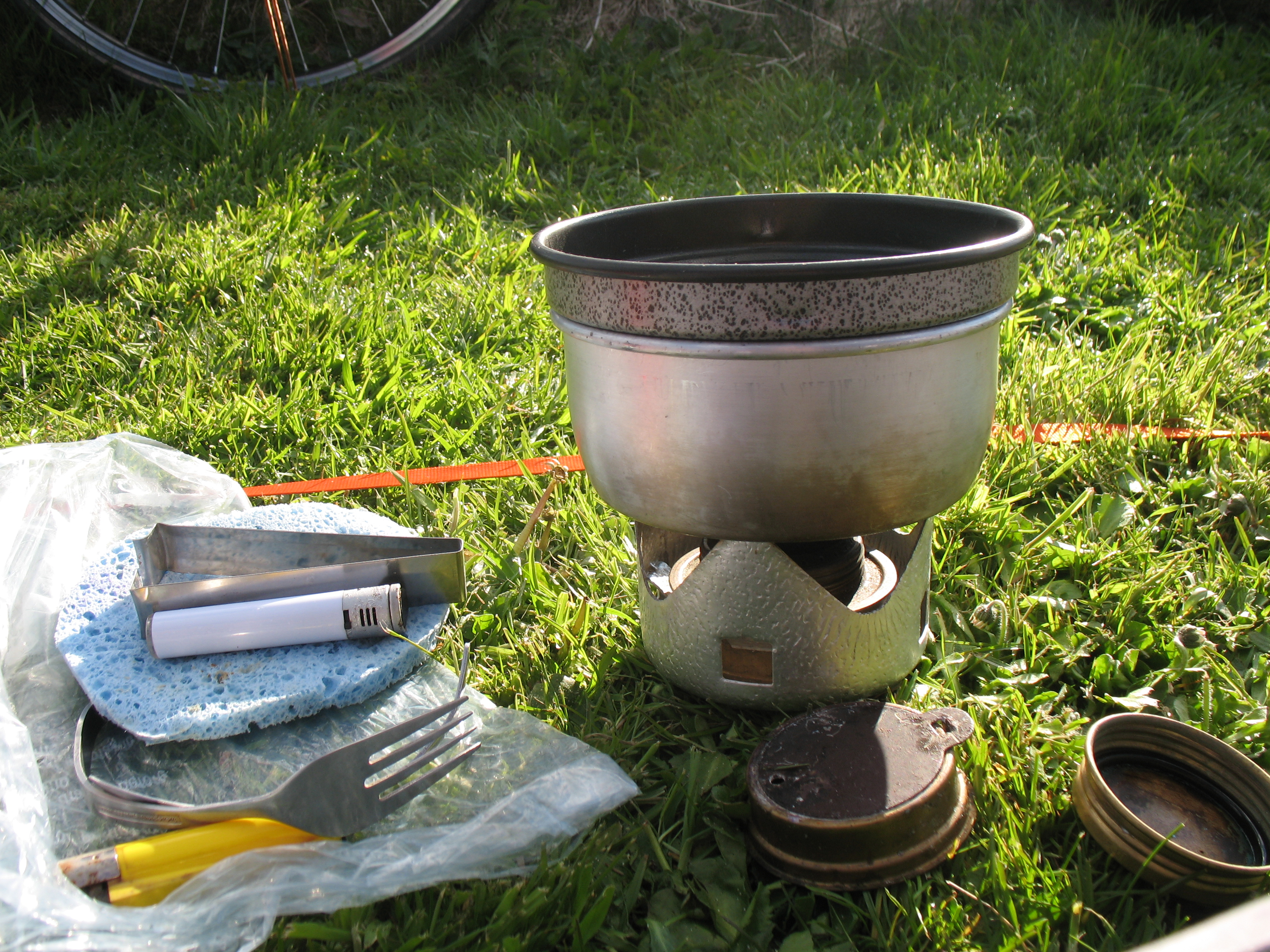 Mini Trangia stove in use, consisting of an alcohol burner and 0.8l pot with lid that also acts as nonstick frying pan. The pot simmer ring and lid are in the foreground, and handle in the background behind a lighter.